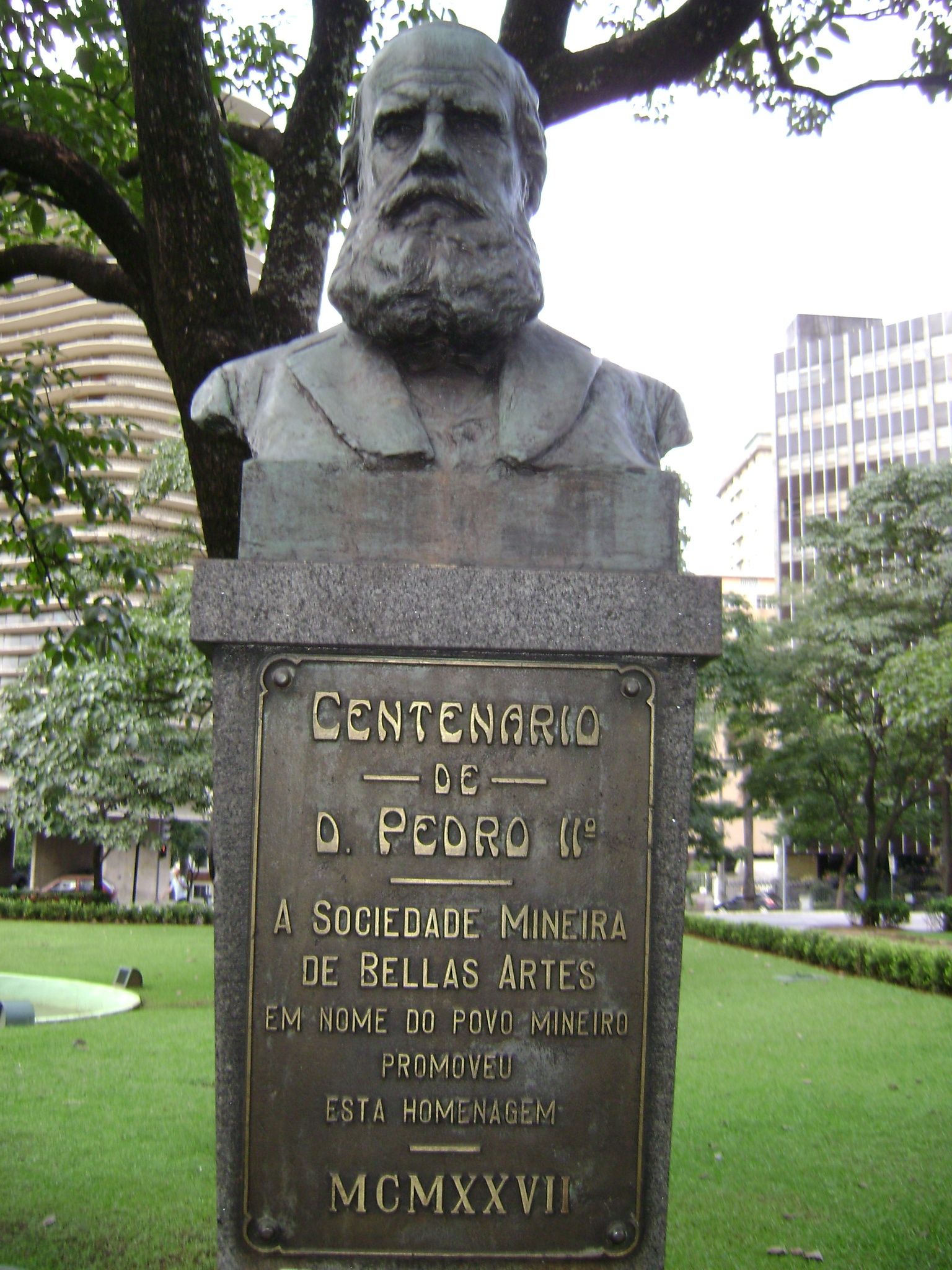 Estátua em homenagem ao Pedro II, na Praça da Liberdade, Belo Horizonte, Brazil.